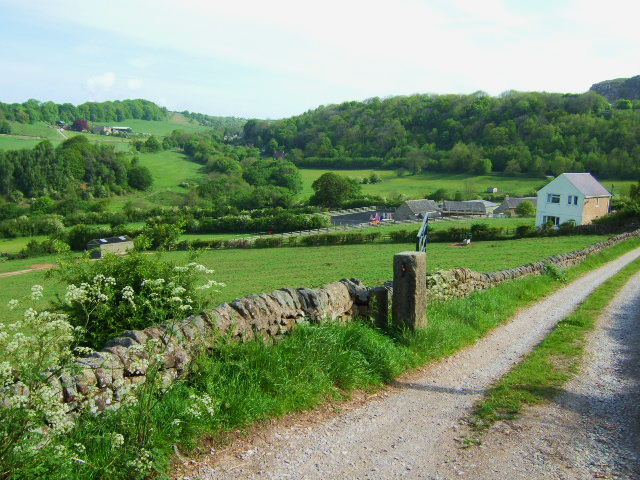 Coddington in Derbyshire, north of Crich